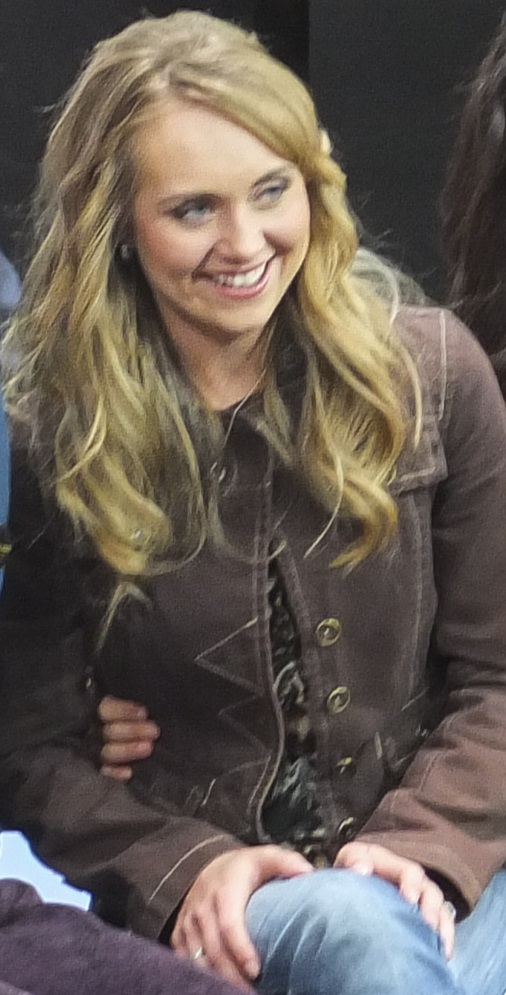 canadian actress Amber Marshall in 2015 Heartland cast